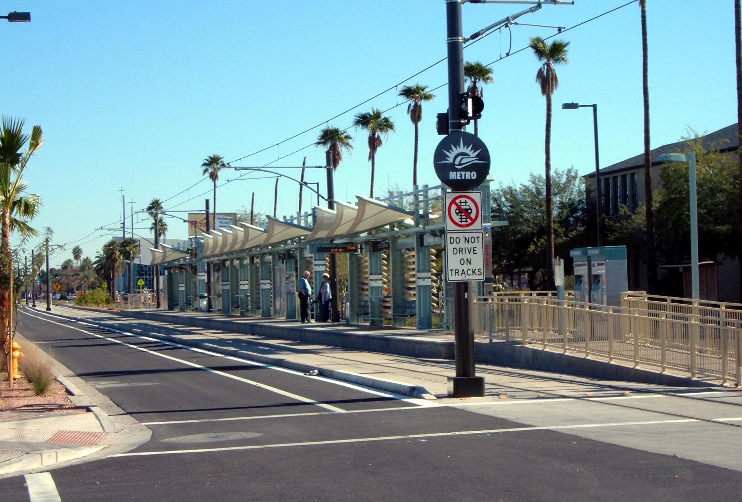 Photograph of the Eastlake Park (or Washington at 12th Street) Station of METRO Light Rail that serves the Phoenix area, Arizona, USA. This is a photograph of the eastbound platform. This photograph was taken during the light rail's grand opening celebration on December 28, 2008.